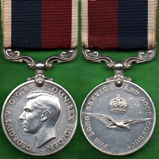 The second King George VI version of the Royal Air Force Long Service and Good Conduct Medal